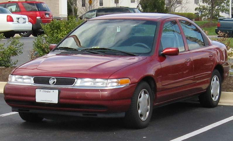 1995-1997 Mercury Mystique photographed in USA.